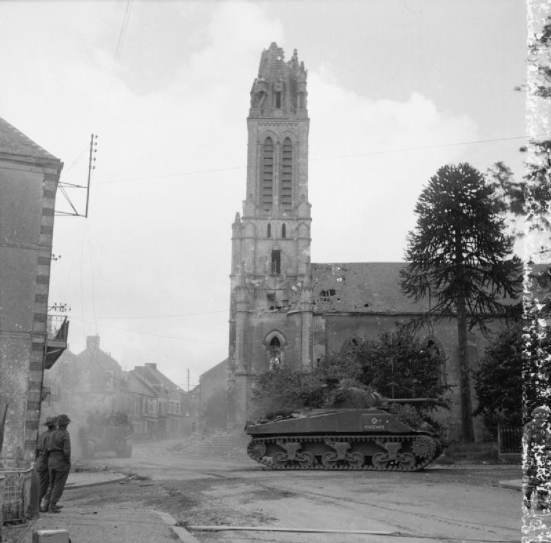 IWM caption : THE BRITISH ARMY IN NORMANDY 1944. Sherman tanks pass through Caumont.